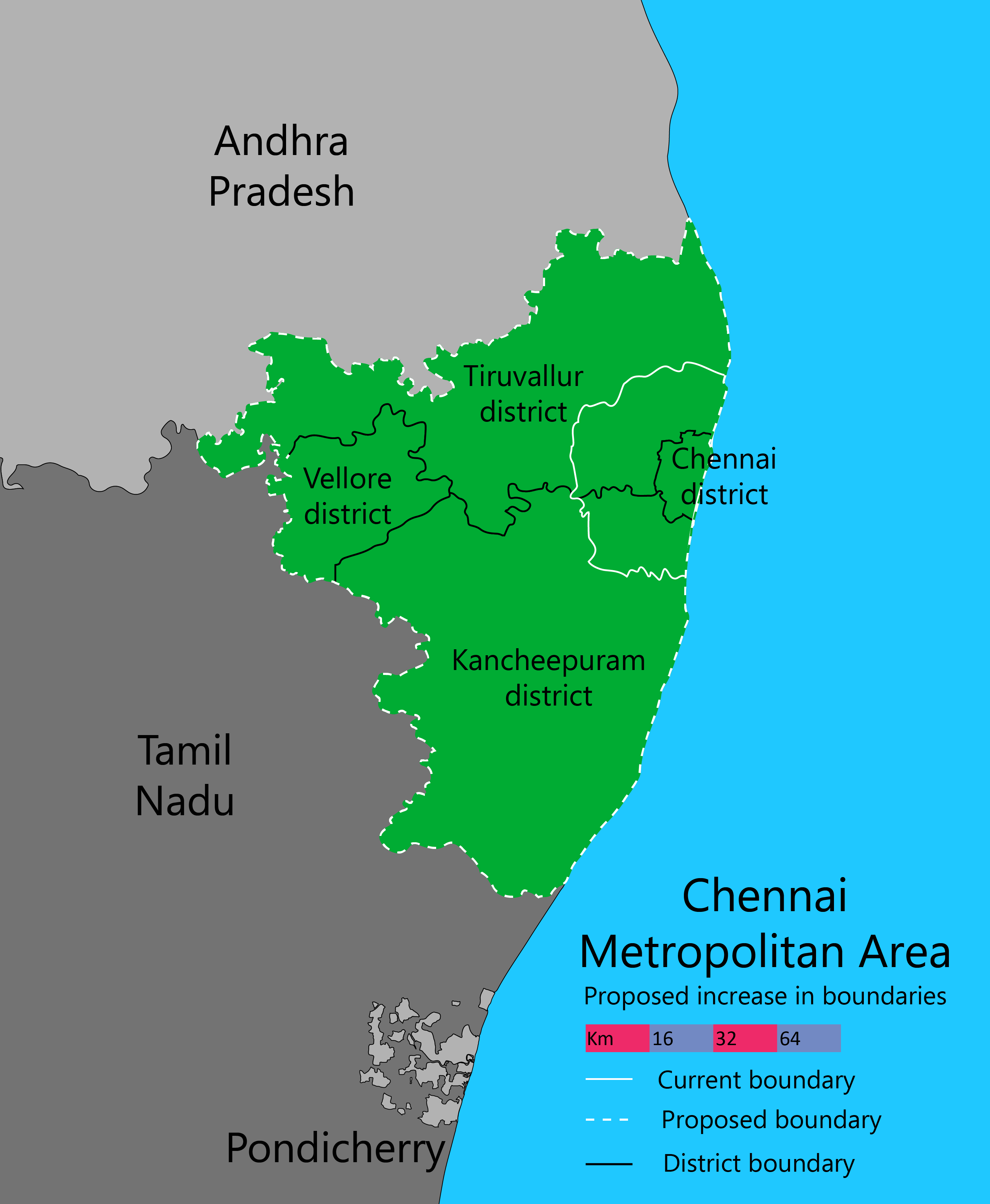 A graphic showing the proposed increase in the boundaries of the Chennai Metropolitan Area.